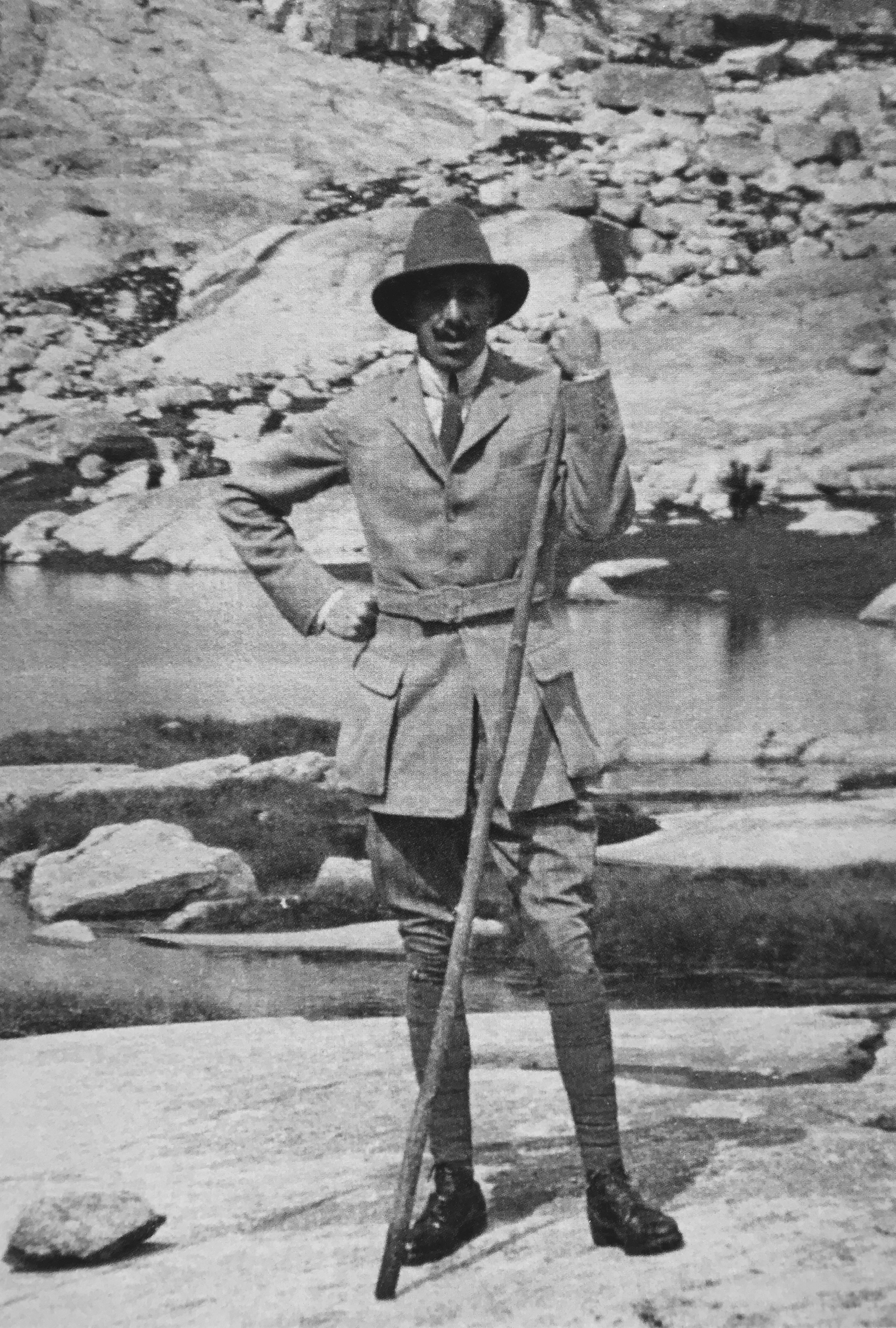 Alfonso XIII of Spain wearing a Norfolk Jacket at a chamois driven hunt in Picos de Europa National Park.